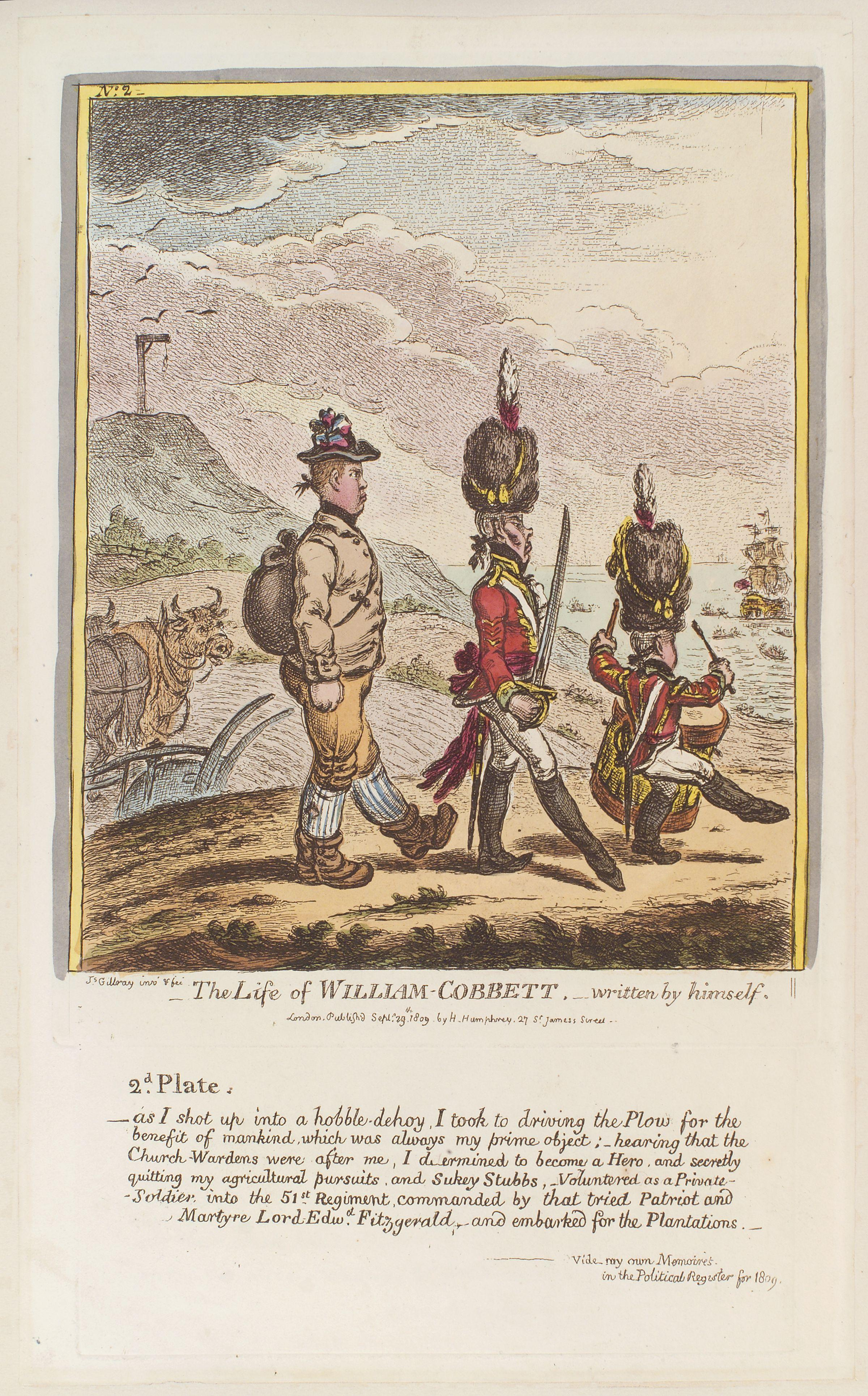 The life of William Cobbett - written by himself. No 2' (William Cobbett), by James Gillray (died 1815), published 1809. All images in this batch have been confirmed as author died before 1939 according to the official death date listed by the NPG.